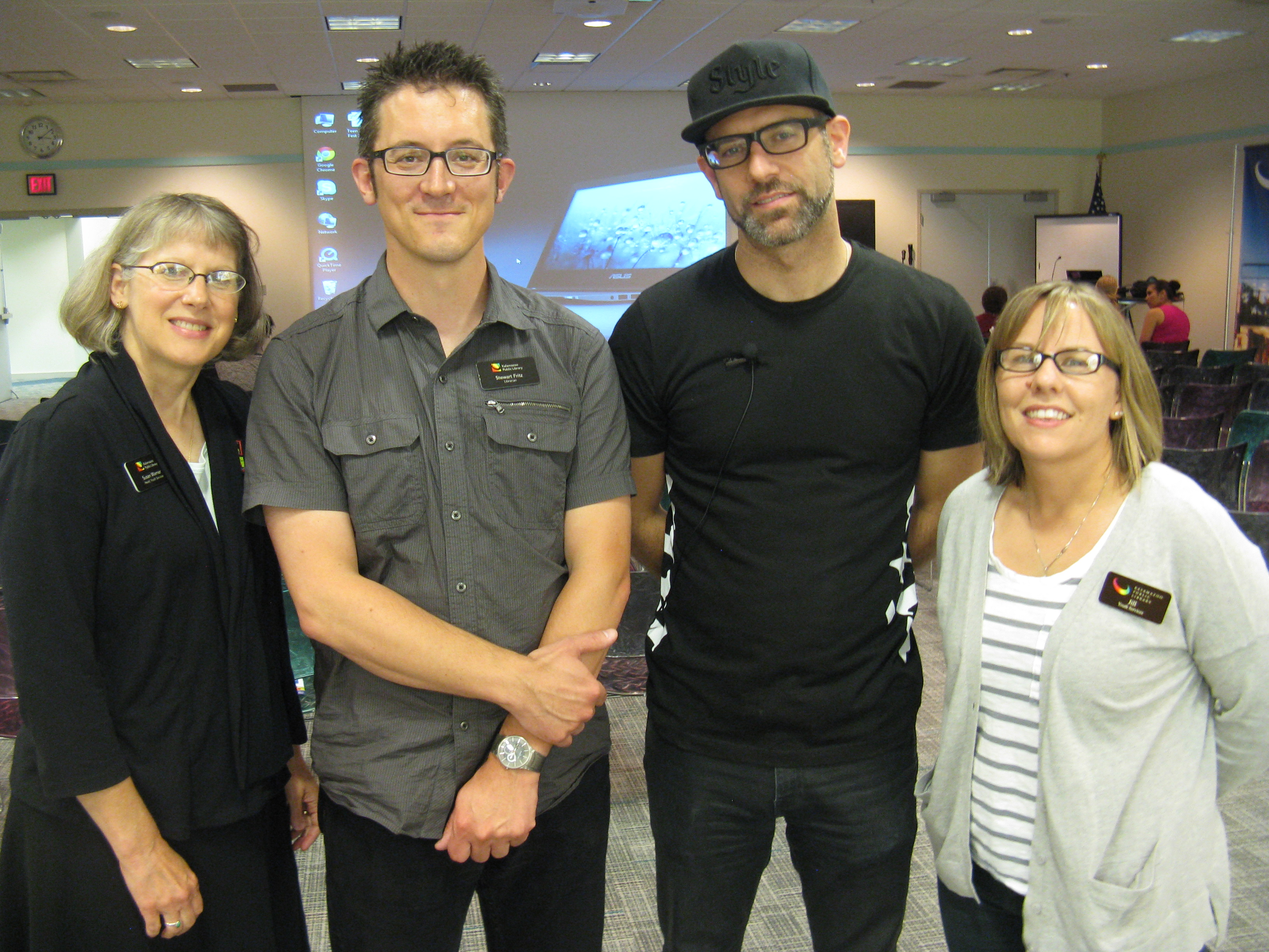 Author Kevin Coval, co-founder of “Louder Than a Bomb: The Chicago Youth Poetry Festival” visited Kalamazoo Public Library on Friday, June 20, 2014, for a poetry workshop and performance. Pictured (l-r): Sue Warner, Head of Youth Services; Stewart Fritz, Teen Services Lead Librarian; Kevin Coval; Jill Lansky, Teen Services Library Associate.